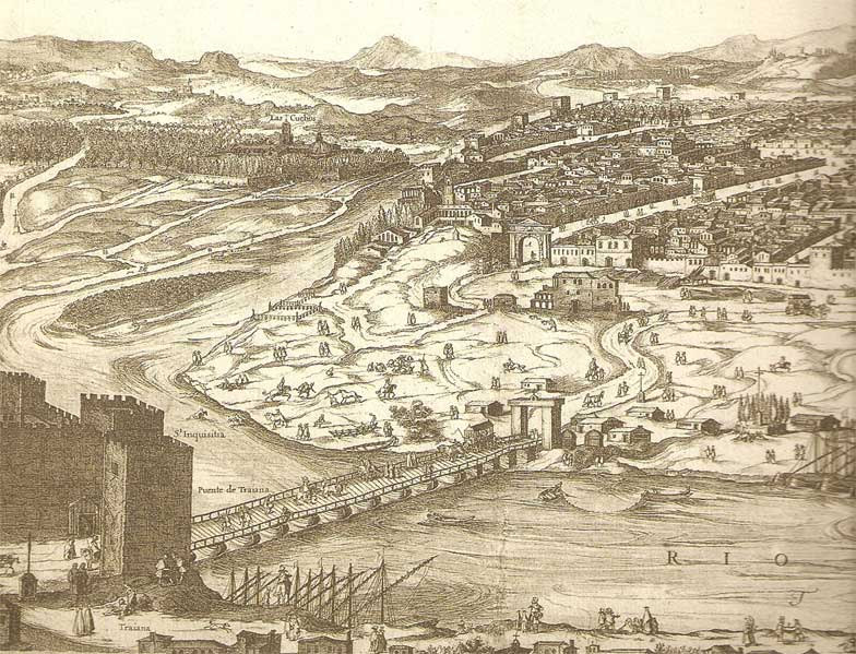 Drawing of Seville in early 17th century. At the bottom left is the Castle of San Jorge, in that time was the headquarters of the Inquisition. It would not be a nice place where get in but forced to enter the to the Barrio de Triana, by the Puente de Barcas (Bridge of Barcas), which during 1617 was known as "Puente de Traiana". At the higher center is the Puerta Real or de Goles and on the top, the inmes trees that the 21th century Spanish workers came close to chop down, la Alameda and behind the Puerta de la Macarena.